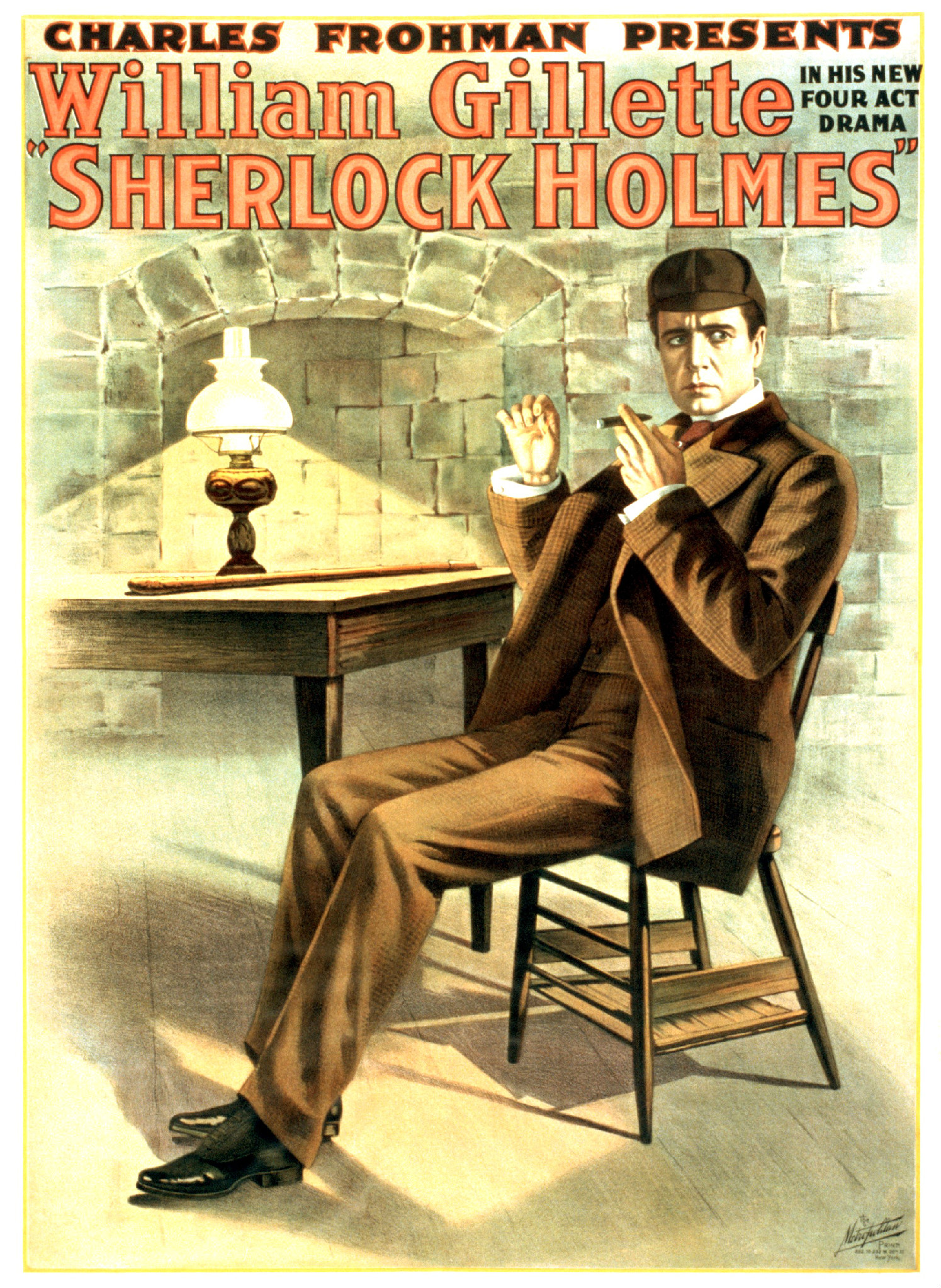 Poster for the 1916 film Sherlock Holmes.